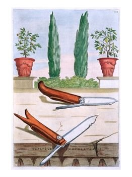 Gardening Knife, handcoloured illustration from "Hesperides" by Giovanni Battista Ferrari, ed. Rome: Scheus, 1646